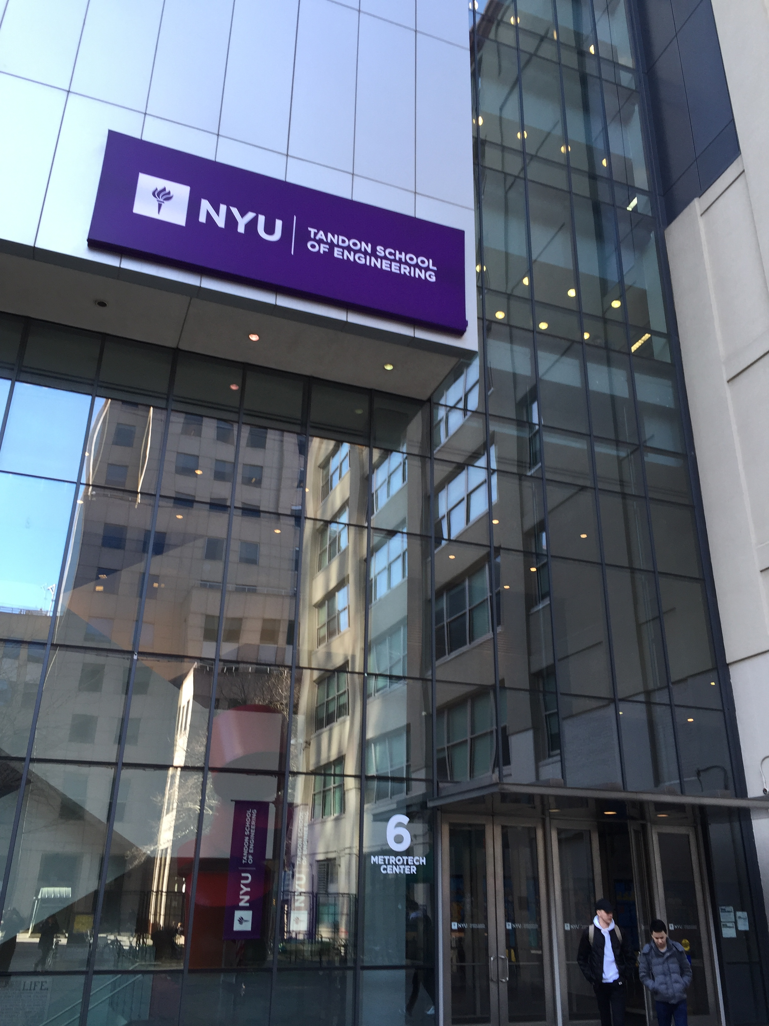 NYU Tandon School of Engineering building